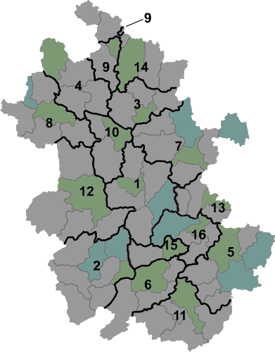 Map of prefectures in Anhui Province